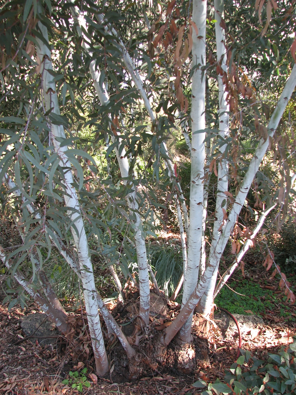 Eucalyptus saxatilis (cultivated, labelled), Burnley Gardens, Victoria, Australia